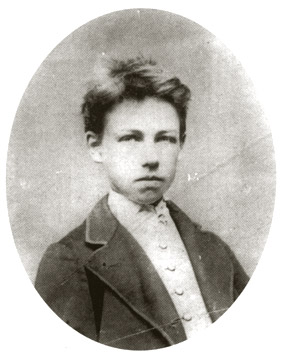 Étienne Carjat, Portrait of Arthur Rimbaud at the age of seventeen, c. 1872 - attribuated to Carjat or Émile Jacoby, photographer in Charleville (?)